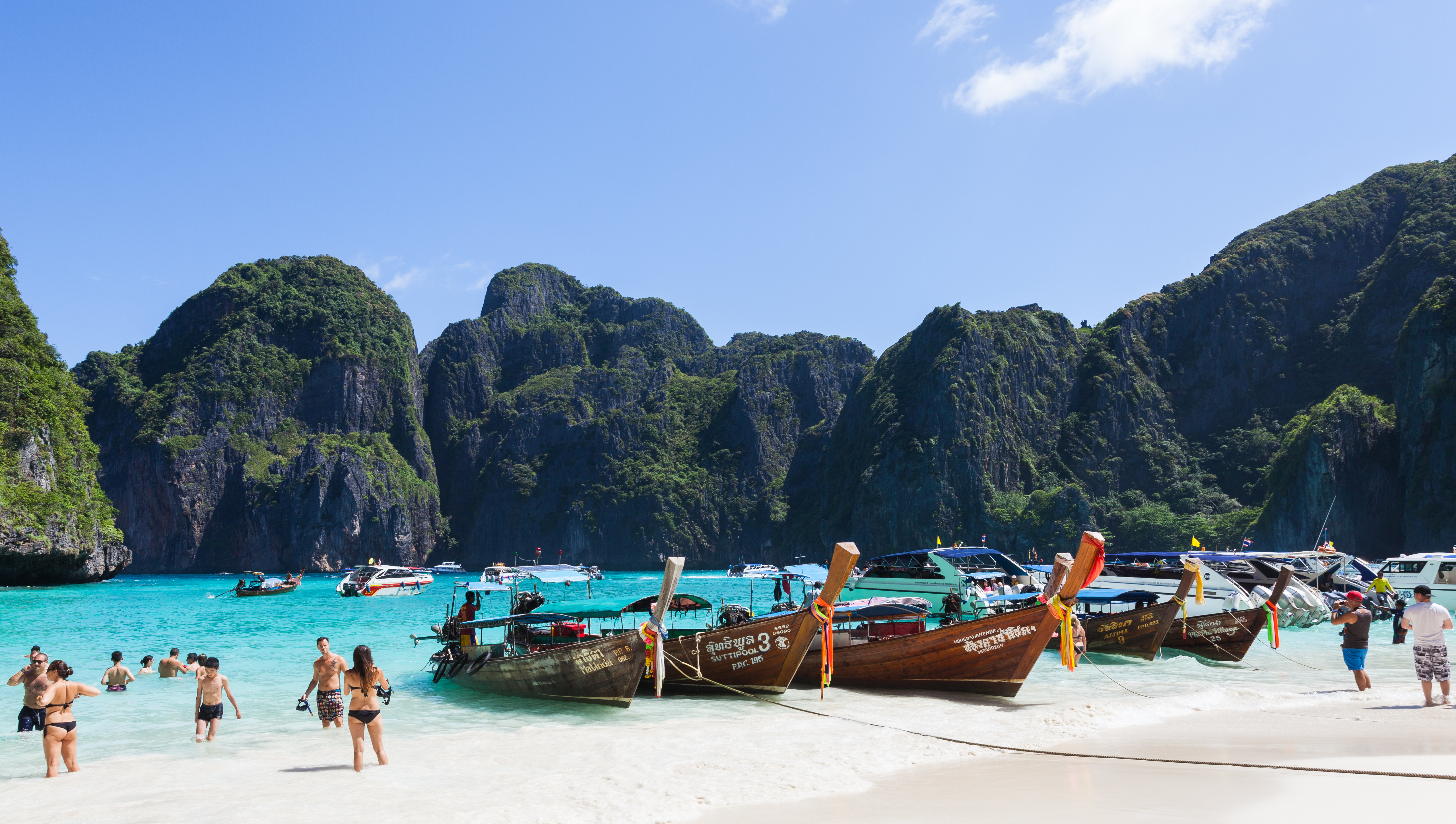 Maya Beach, Ko Phi Phi, Thailand